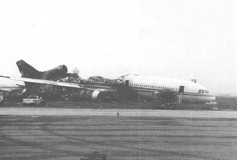 Trans World Airlines Flight 843（N11002）wreckage2